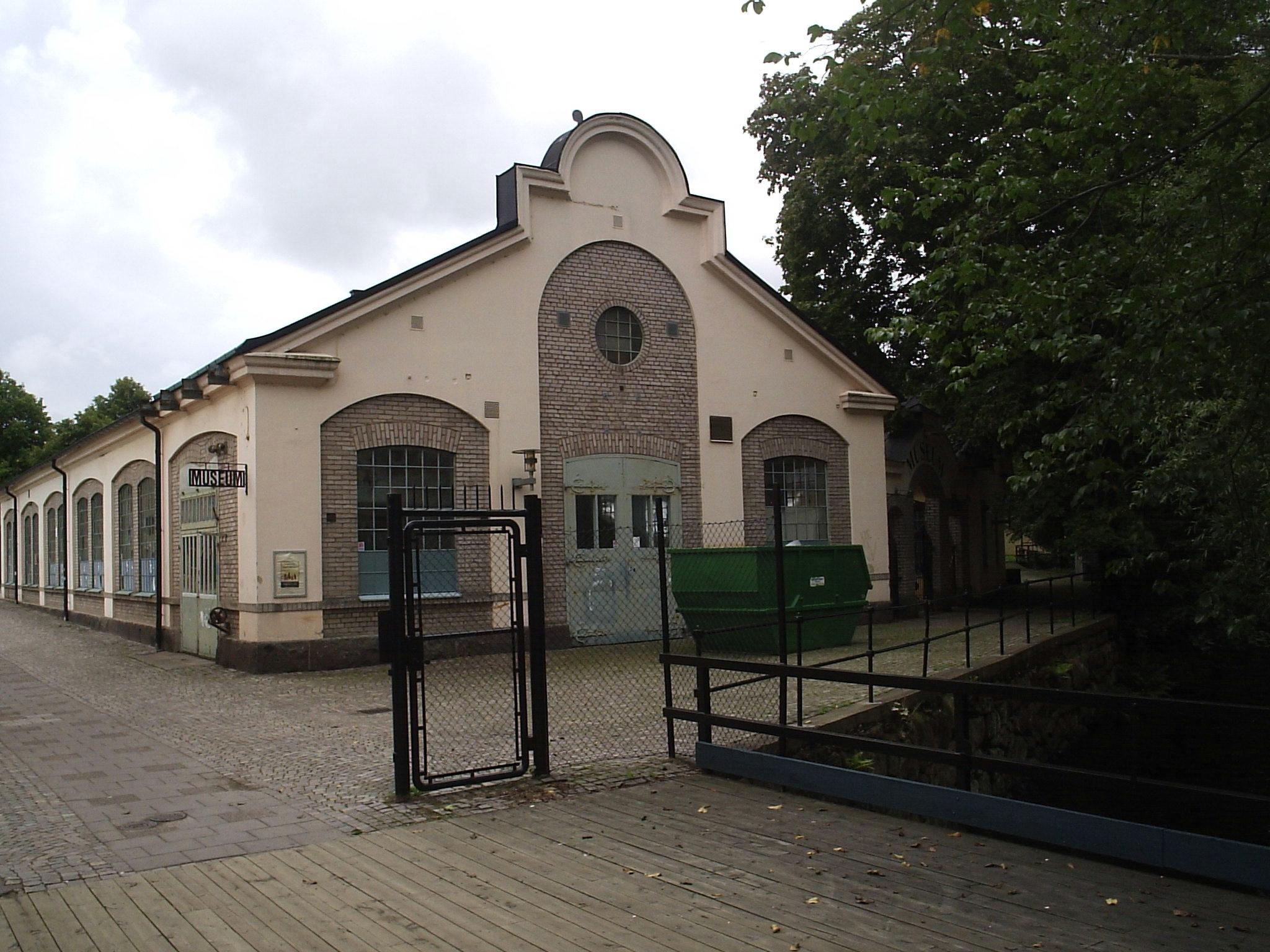 Photo by Harri Blomberg.